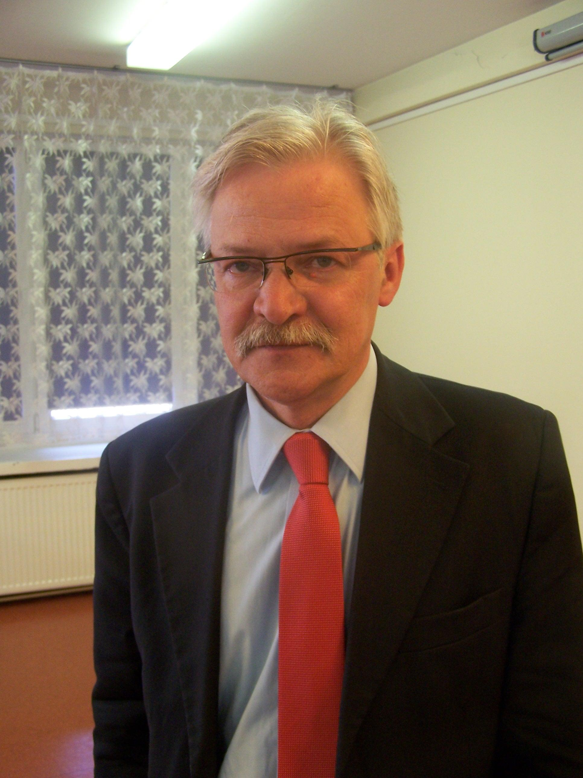 Tadeusz Zwiefka member of the European Parliament